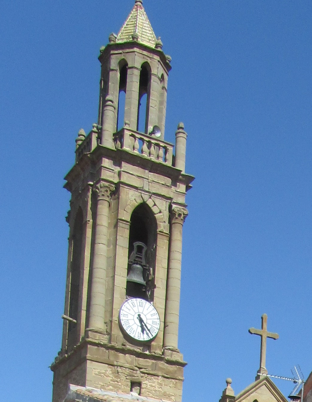 Campanar de l'Església de la Mare de Déu de l'Assumpció